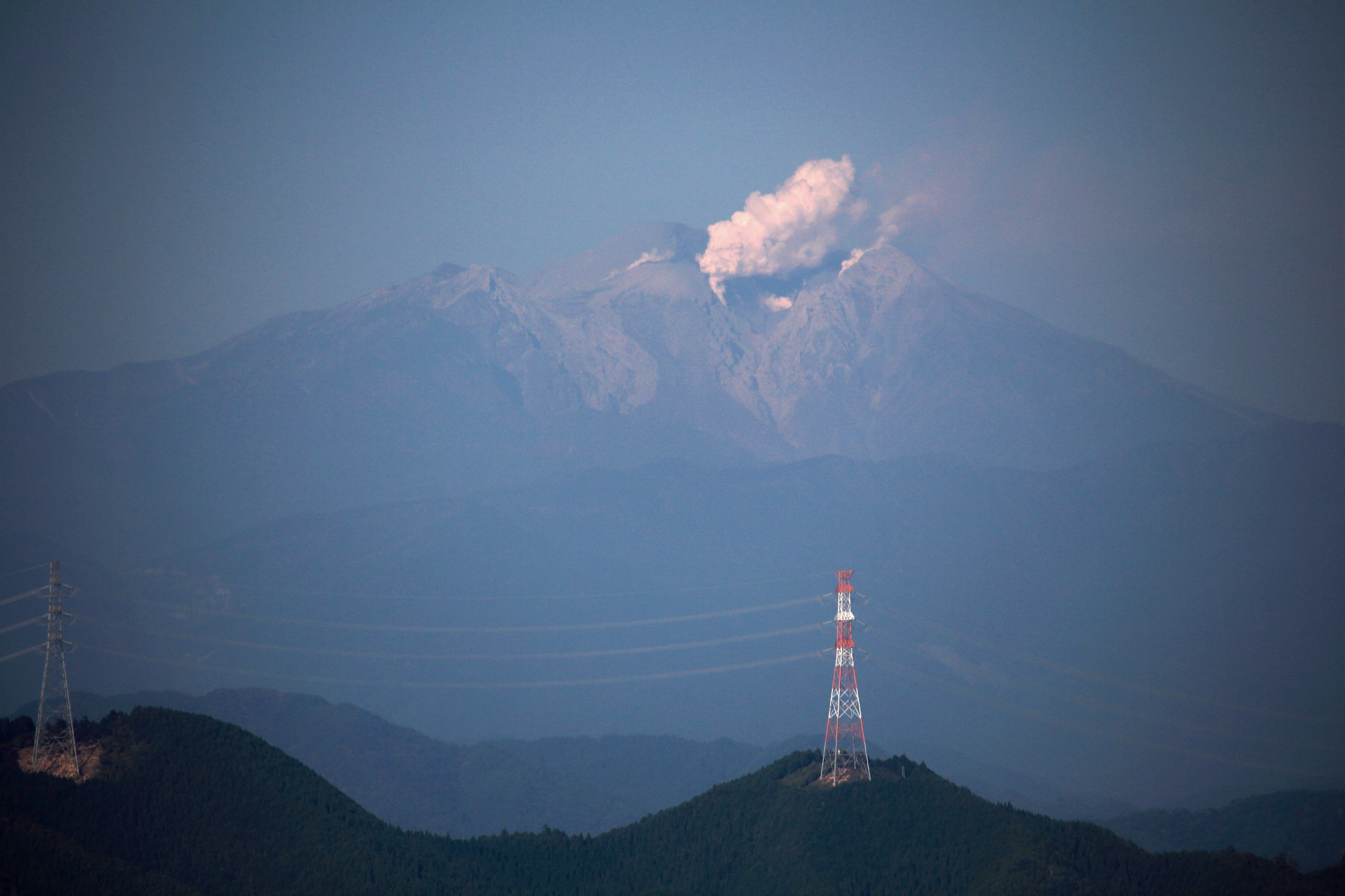 Mount Ontake seen from Mount Noko in Gifu prefecture, Japan. After Septenber 27, 2014 Mount Ontake eruption.